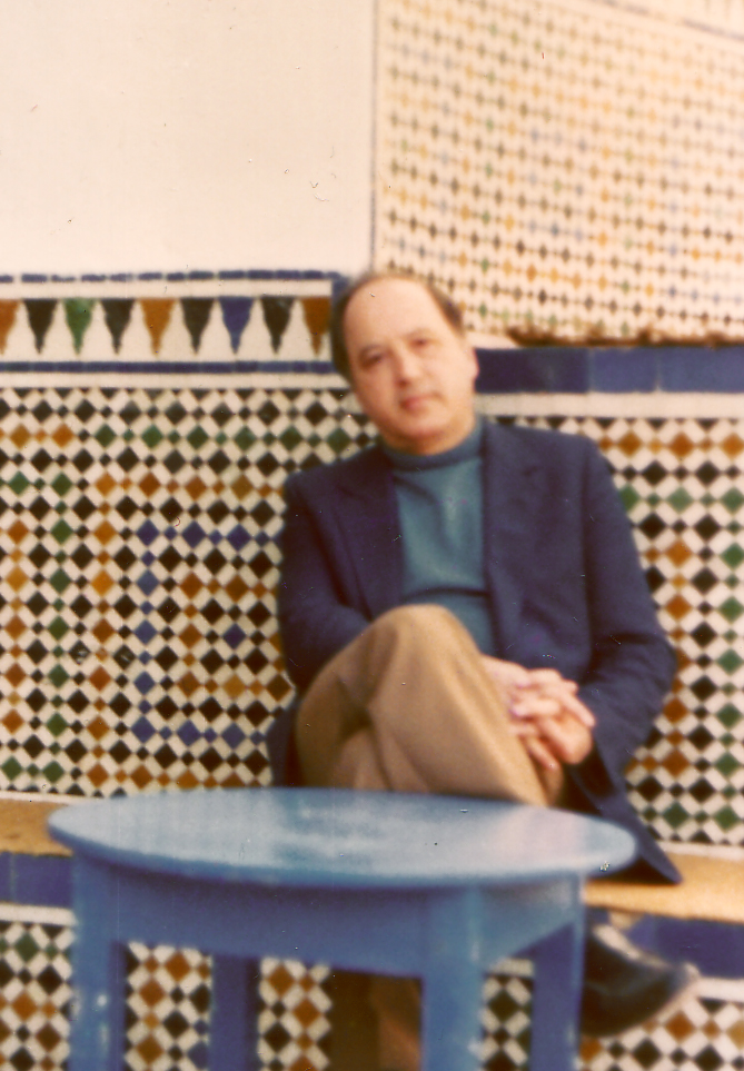 The arabist Rodolfo Gil Grimau (1931-2008) in Rabat, Morocco, 1984.